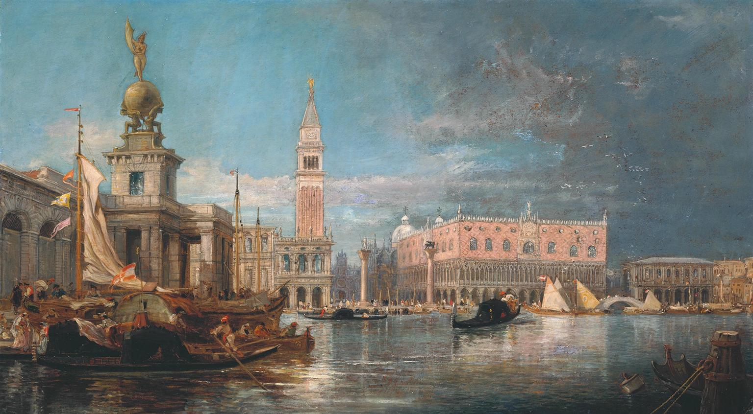 The Grand Canal, Venice c.1835-55 James Holland 1799-1870 Bequeathed by Henry Vaughan 1900 Foto lizensiert als Creative Commons CC-BY-NC-ND (3.0 Unported)